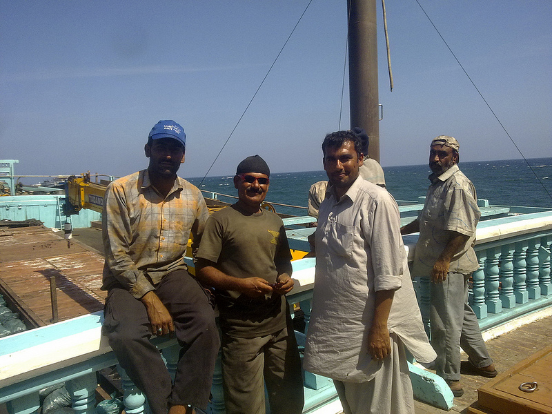 Soomaaliga: pakistani on their bout in barawe port, Taken on January 14, 2012